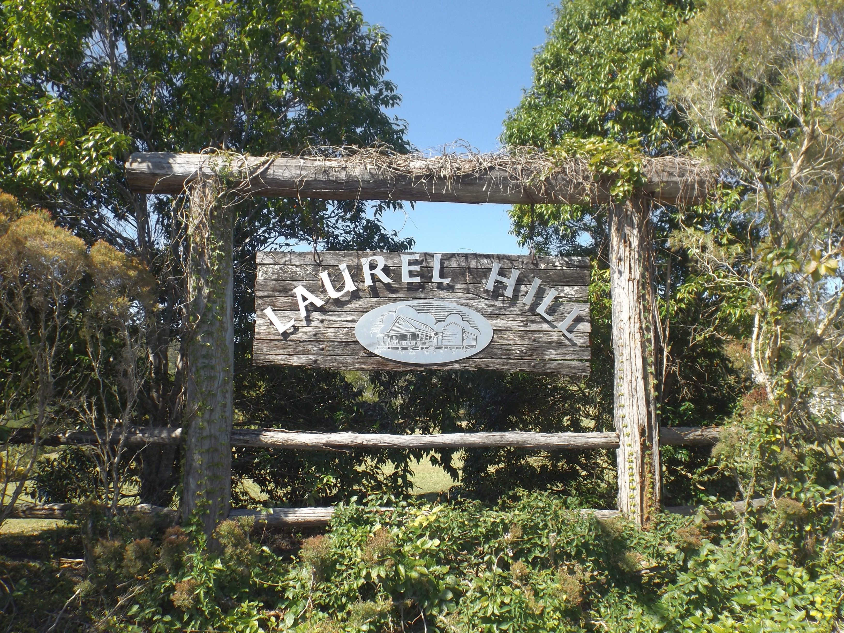 Photo of signage at Laurel Hill Farmhouse at Willow Vale, Logan City, Queensland, Australia.